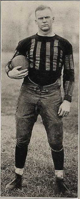 Lynn Bomar, All American end and tackle for Vanderbilt University, pictured in 1922.